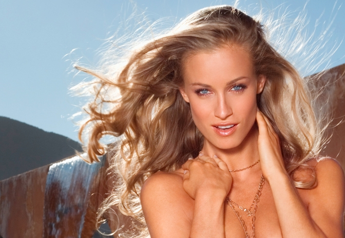 American model and television host Michele Merkin